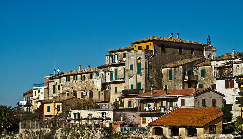 poggio catino partial view